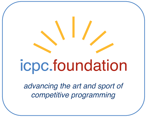 Logo of the ACM ICPC